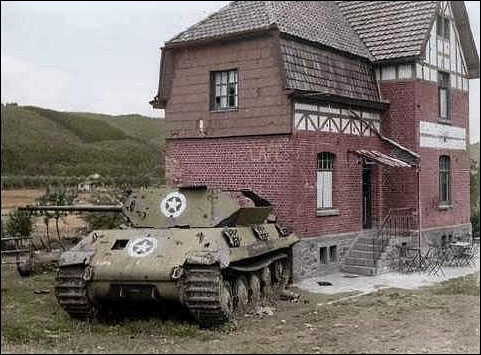 A German Panther tank disguised as M10 tank destroyer.